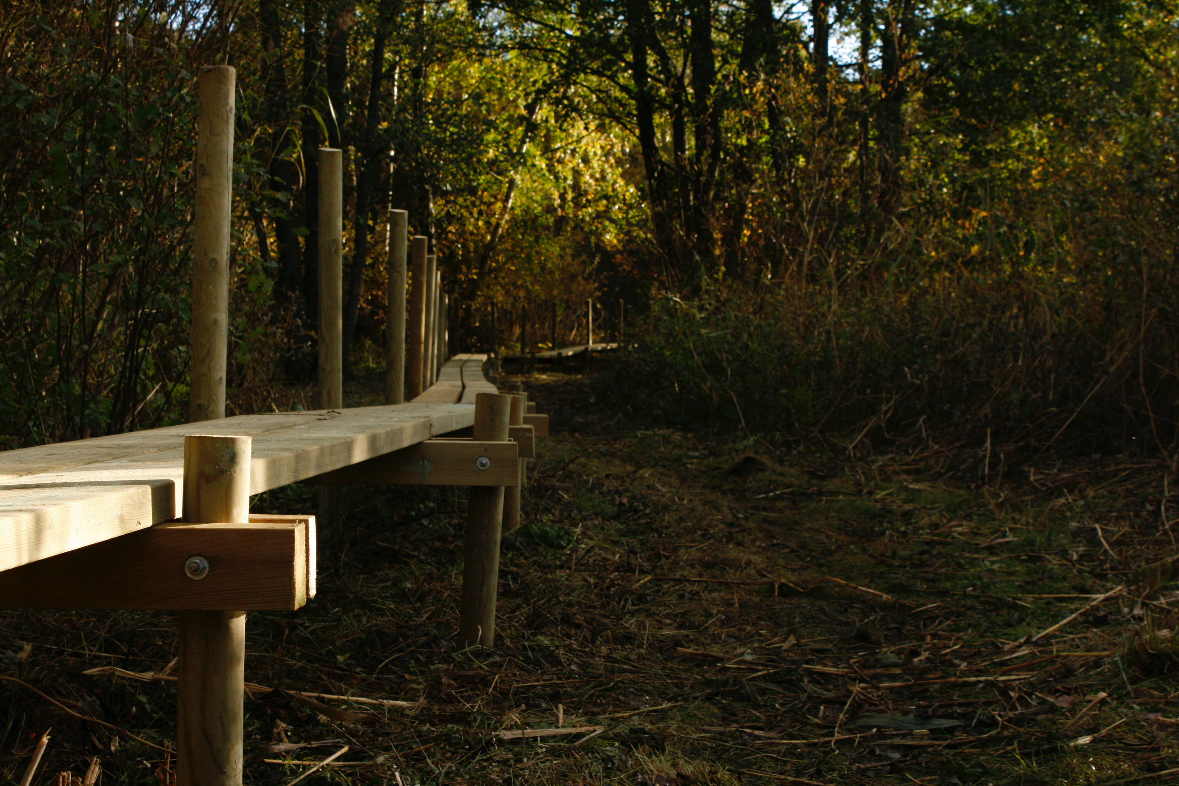 This picture was taken when the Westerholm Trail was being built. It shows the picturesque starting point of the trail where it leads away from the main road and along the Kyrkviken bay.